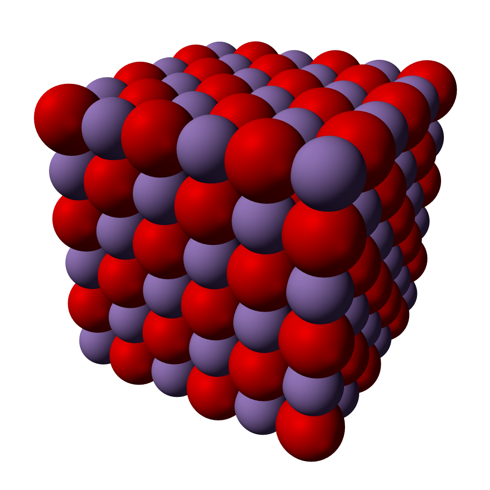 Space-filling model of part of the crystal structure of Manganese(II) oxide, MnO. Structural data from the CrystalMaker 8.1 structure library, originally from Zhang J Physics and Chemistry of Minerals 26 (1999) 644-648.